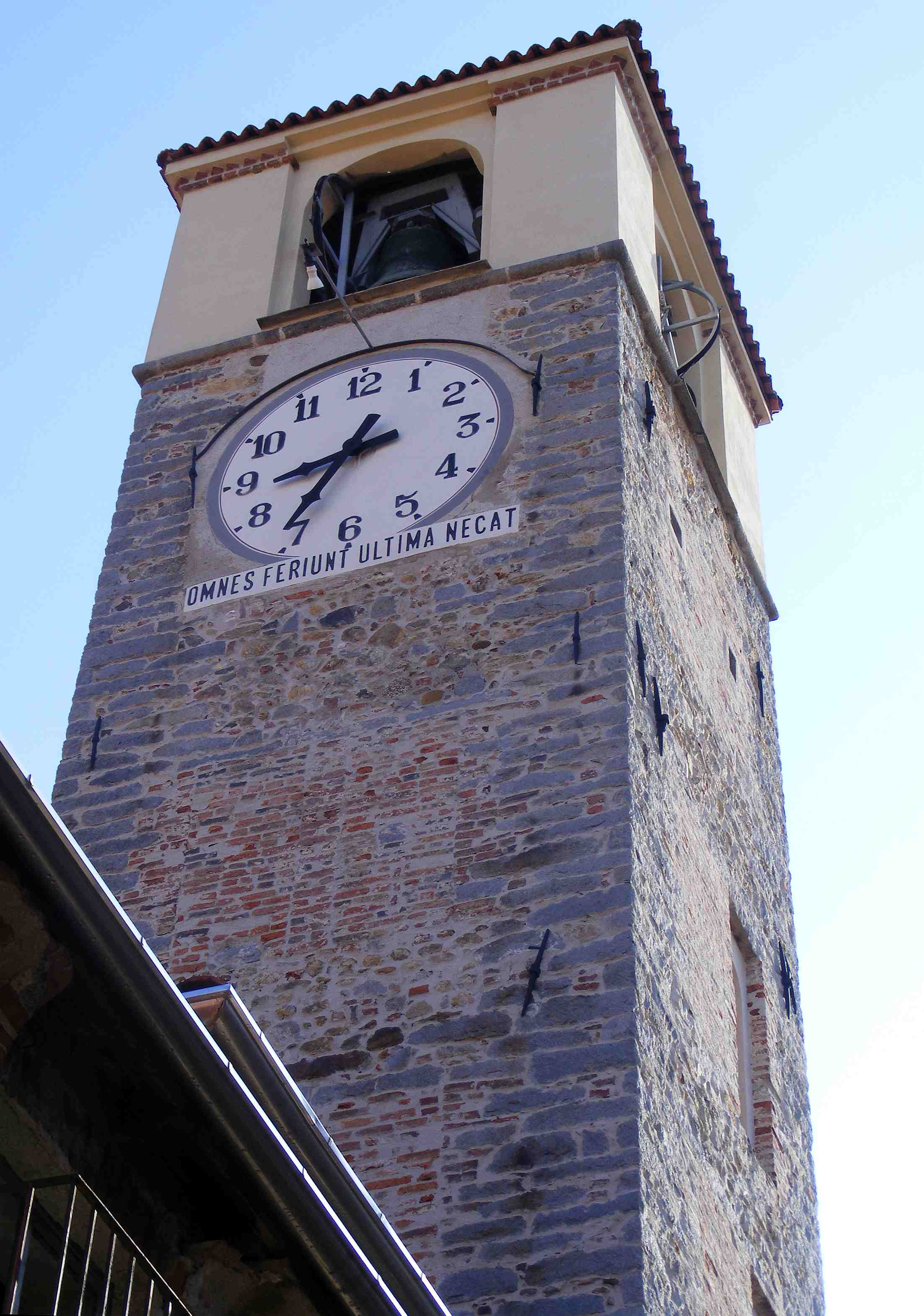 Cossila San Grato (BI, Italy): church tower